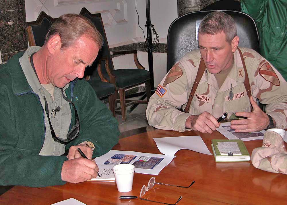 As the Iraqi elections draw near, news media from around the world descend into Baghdads International Zone. Here, Col John M. Murray, commander of the 1st Cavalry Divisions 3rd Brigade Combat Team, explains the current security situation to ABC World News Tonight anchor Peter Jennings and the role his brigade combat team will play in the Jan. 30 Iraqi national elections.